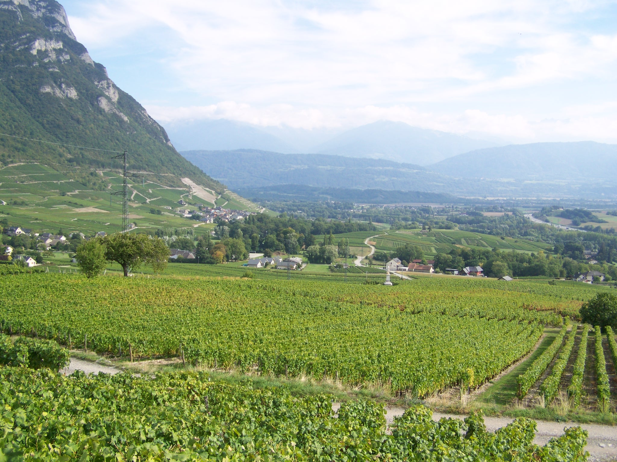 Sight on the wineyards of Chignin near Chambéry in Savoie, France.